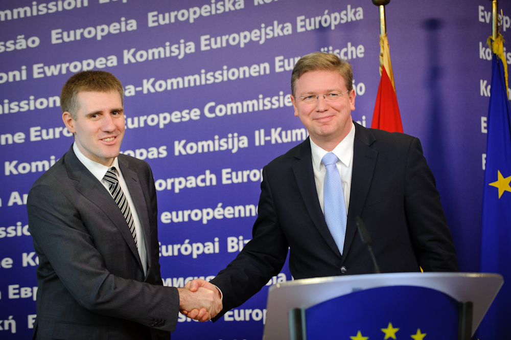 Igor Luksic with Stefan Fule